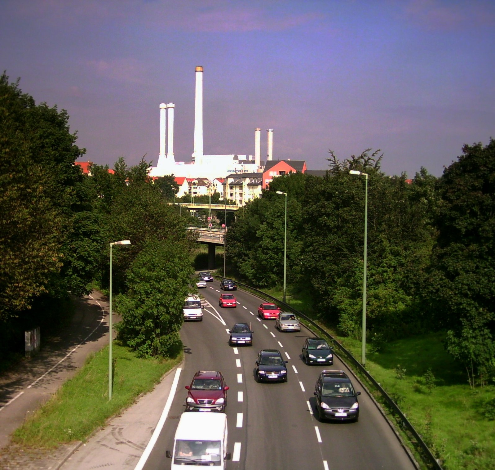 The “Mittlere Ring” (Bundesstraße 2 R) in Munich - Sendling, western exit of Brudermühltunnel, seen from bridge Plinganserstraße. Background: Sendling Powerplant